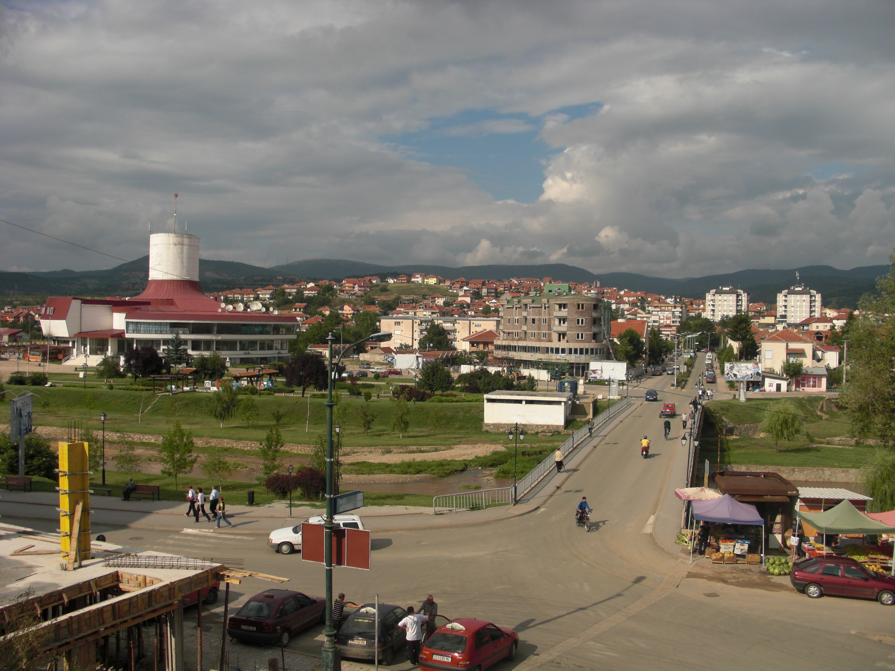 The city of Delčevo in the eastern part of the Republic of Macedonia